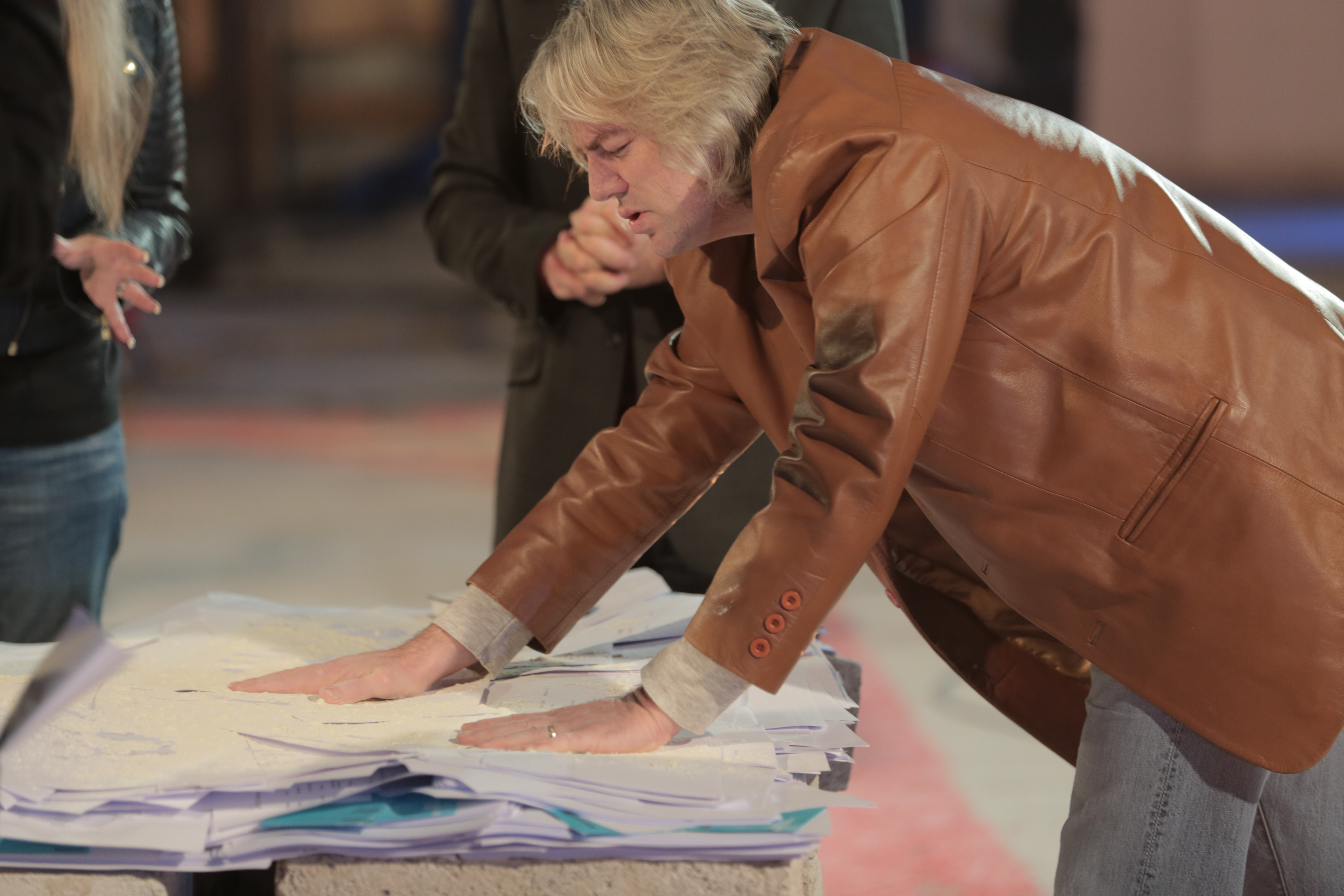 Rory Alec in Plymouth, January 2014